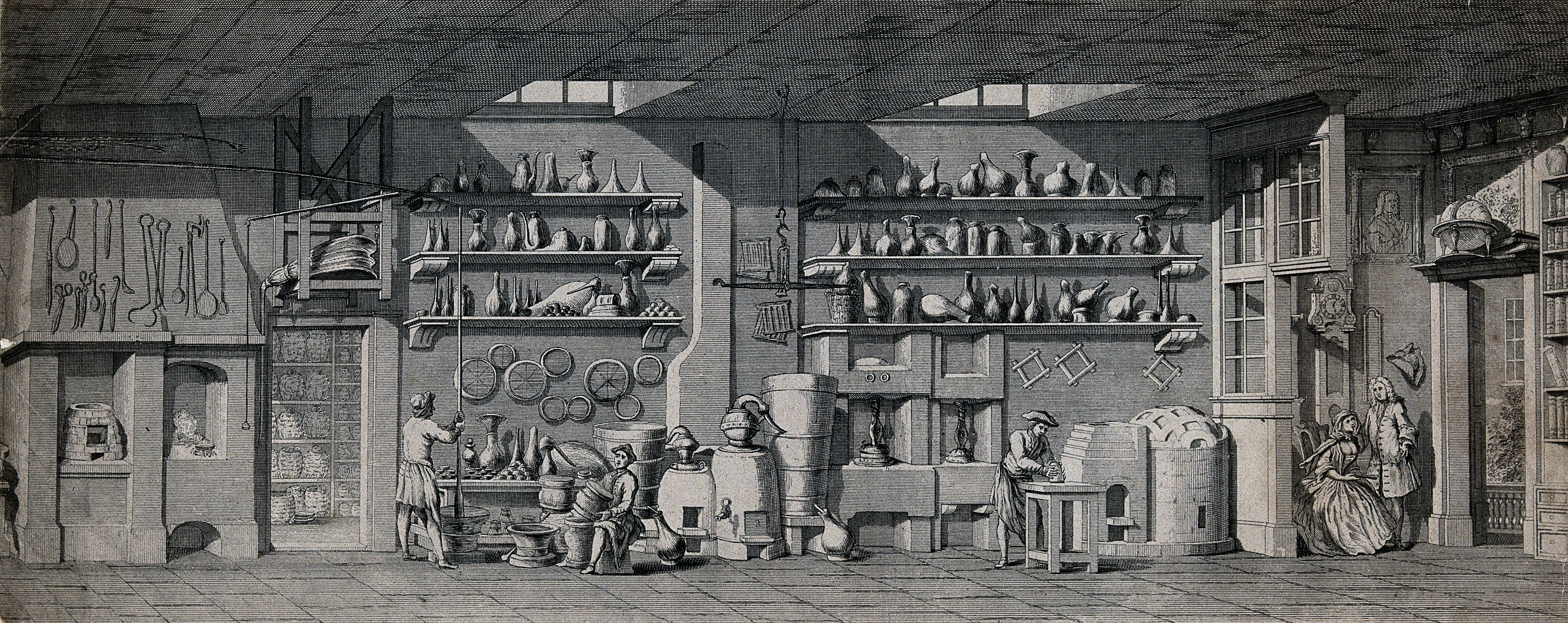 Ambrose Godfrey [Hanckwitz]'s chemical factory in Covent Garden, London, England. Iconographic Collections Keywords: Hanckwitz; Ambrose Godfrey; chemical factory